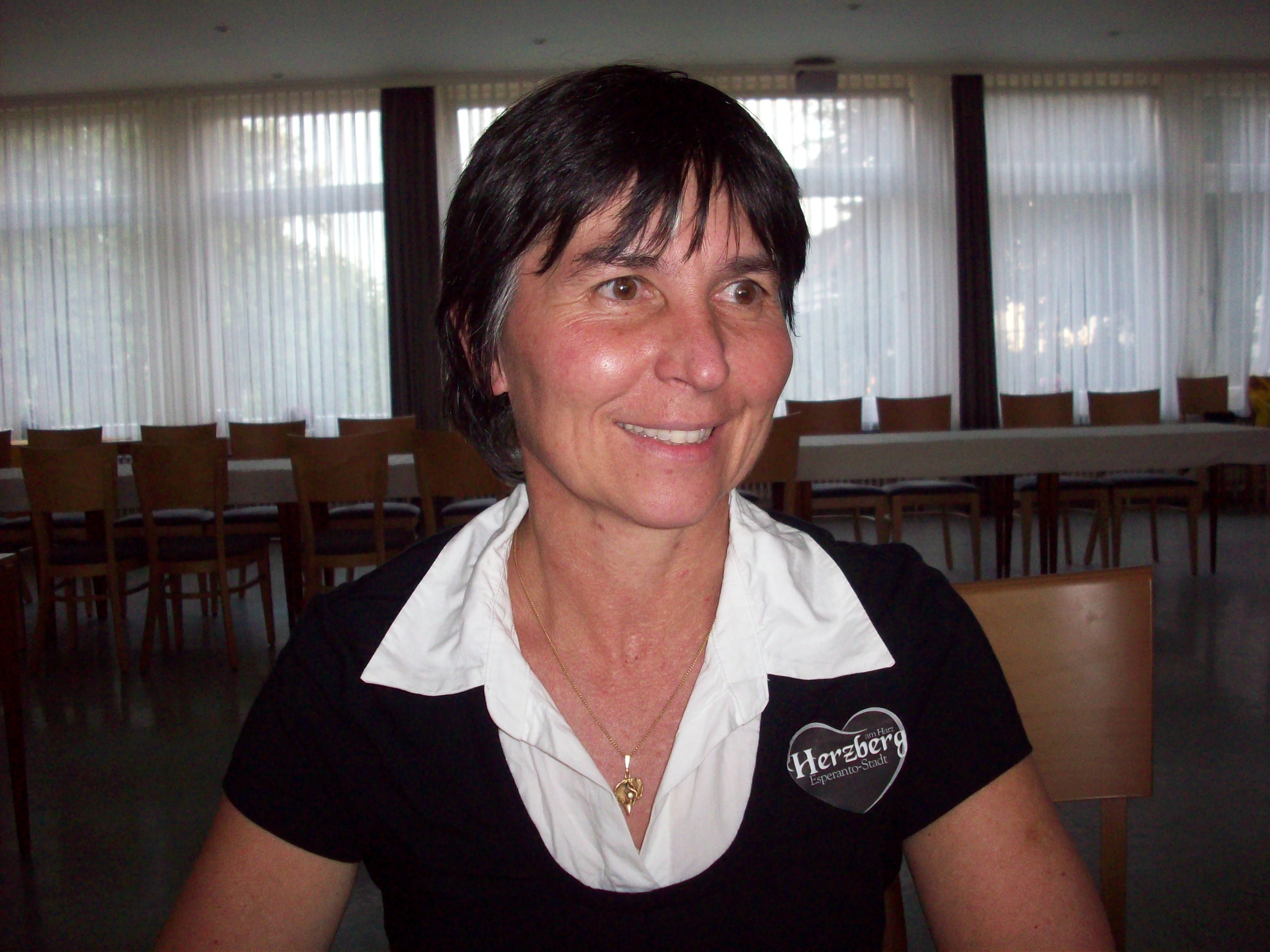 Zsófia Kóródy, Hungarian Esperanto-activist